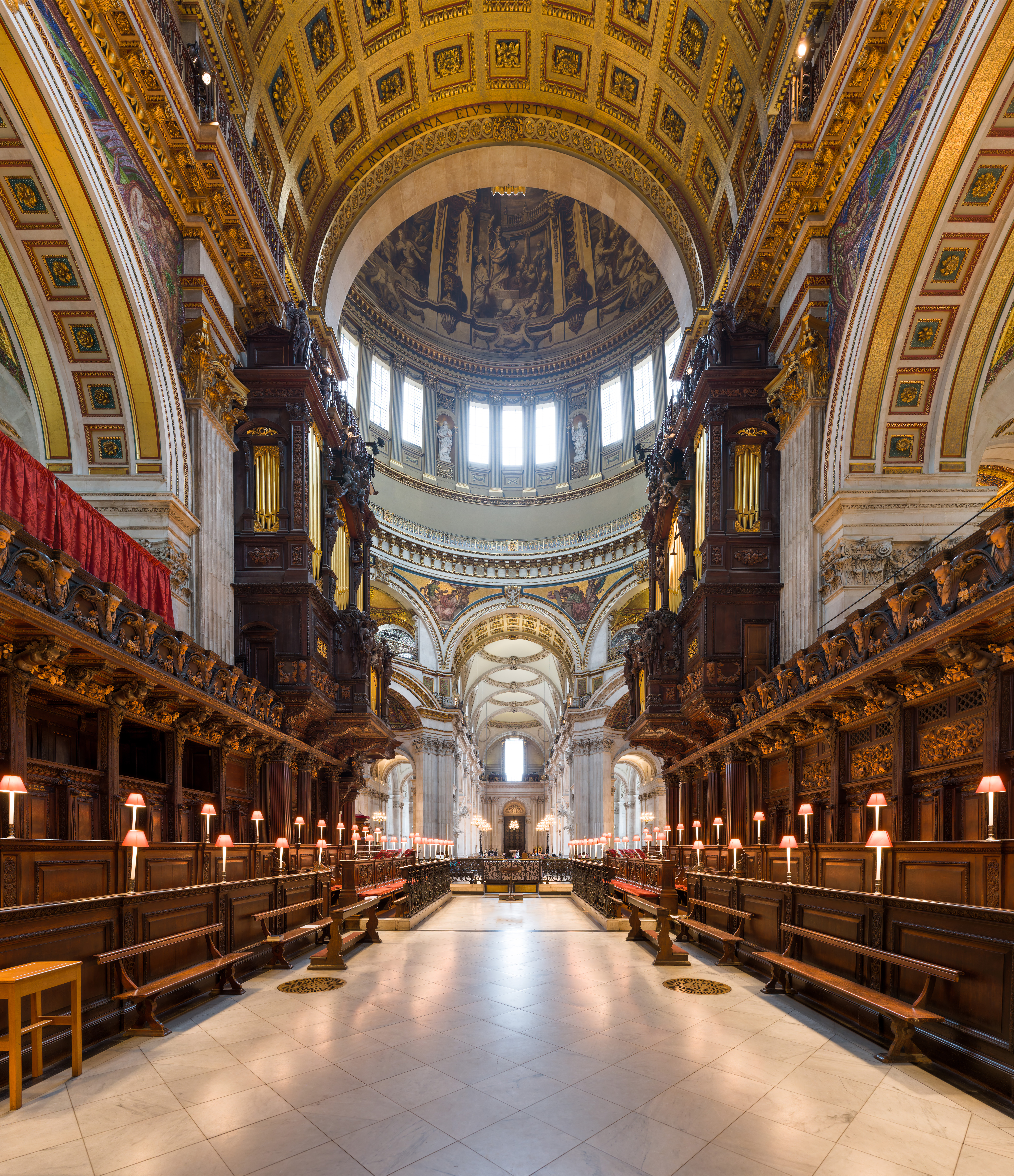 St Paul's Cathedral Choir, looking west toward the dome and nave.